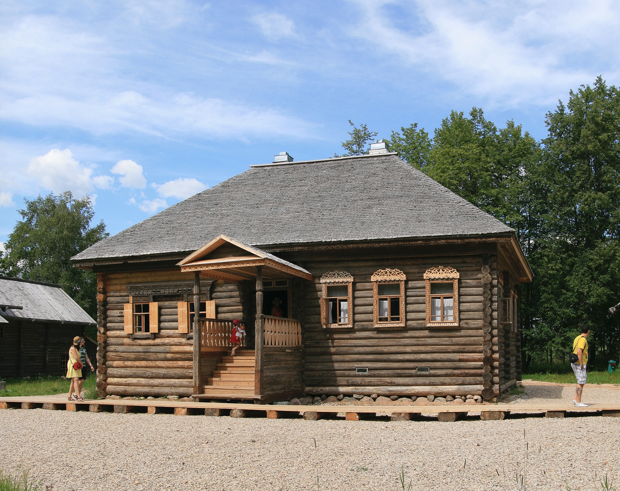 Dobrovolskie House, Vitoslavlitsy museum, Veliky Novgorod